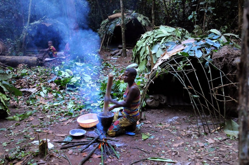 Bayaka people in the Dzanga Sangha Ndoki reserve. Central African Republic rainforest